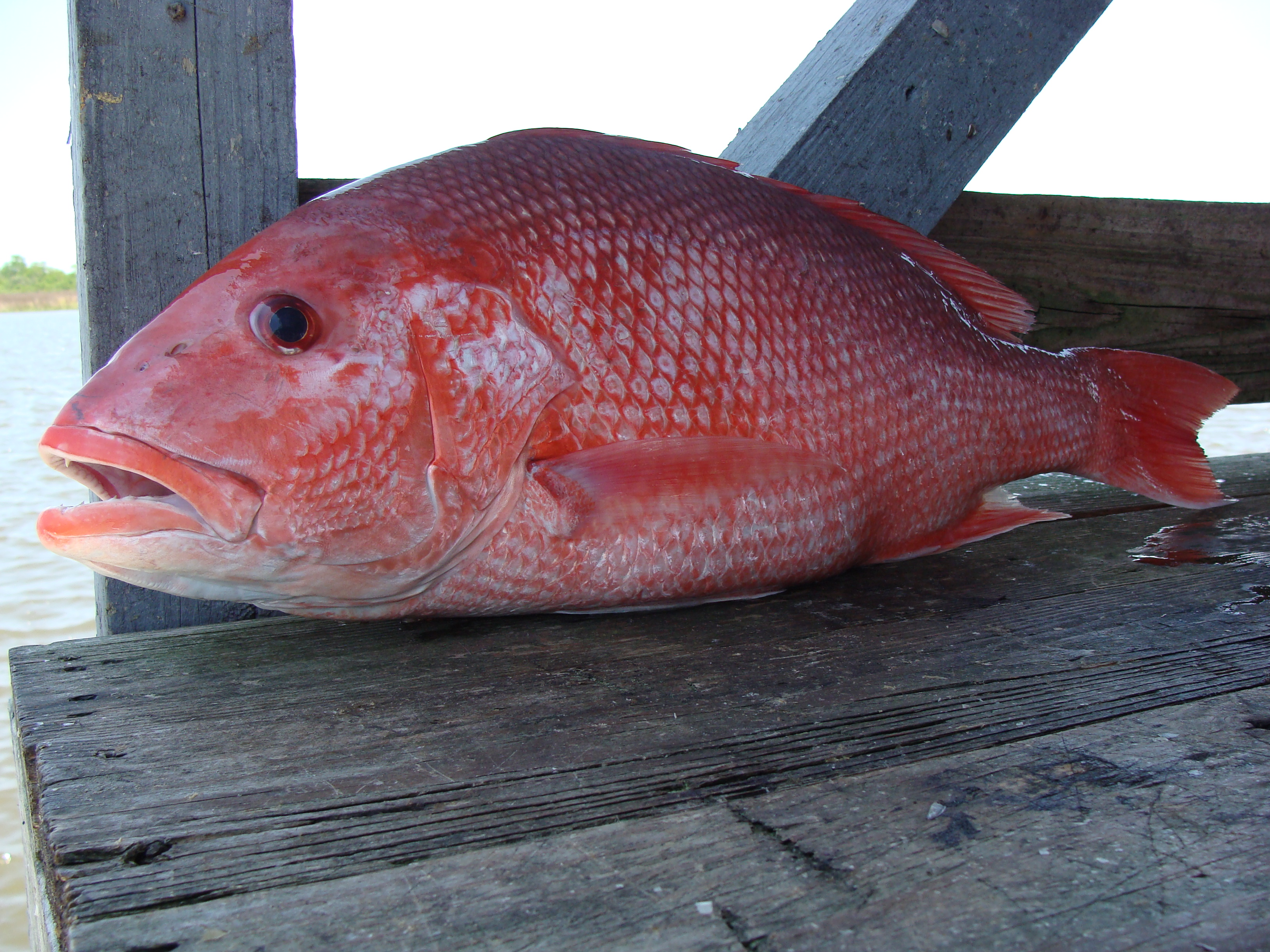 Red Snapper caught in the Gulf of Mexico, about 20 miles south of Port Fourchon, LA